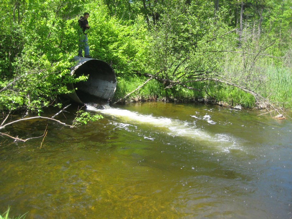 A steel corrugated culvert with a large pool in Northern Vermont.